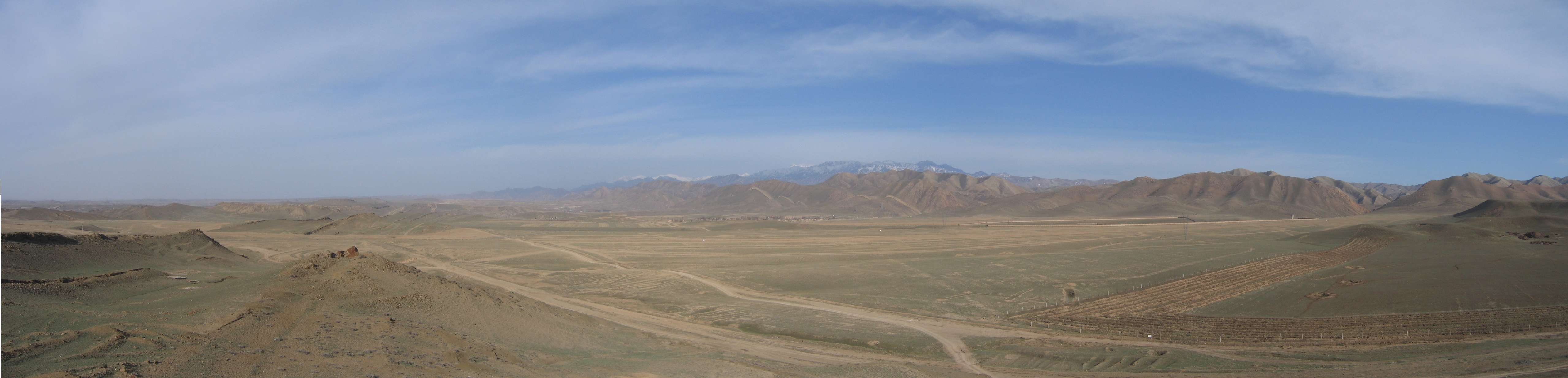 Looking towards Kazakhstan, outskirts of near Urumqi, China